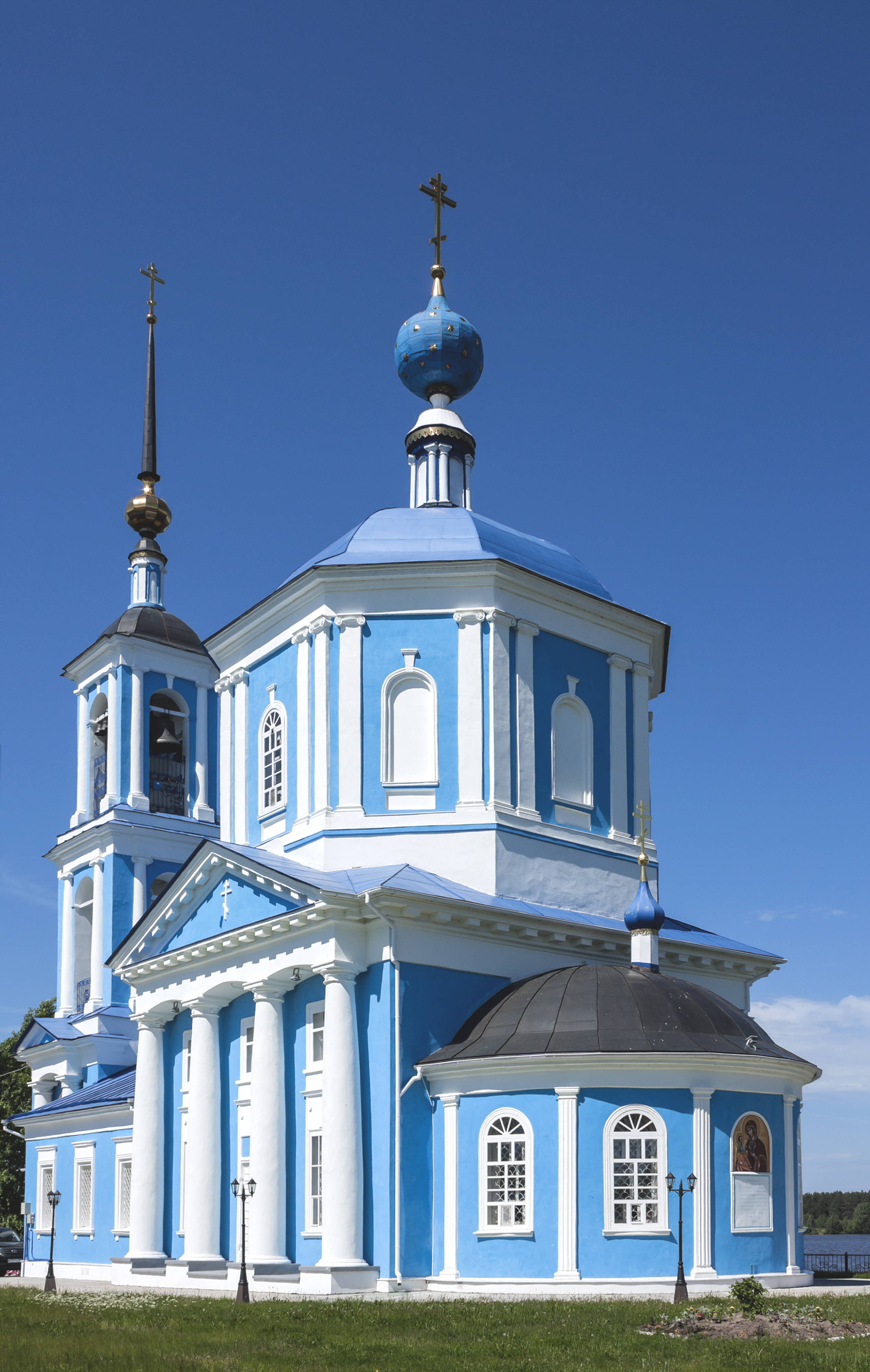 Entry into Jerusalem Church: M / d Art. White town Kimry district, Tver region